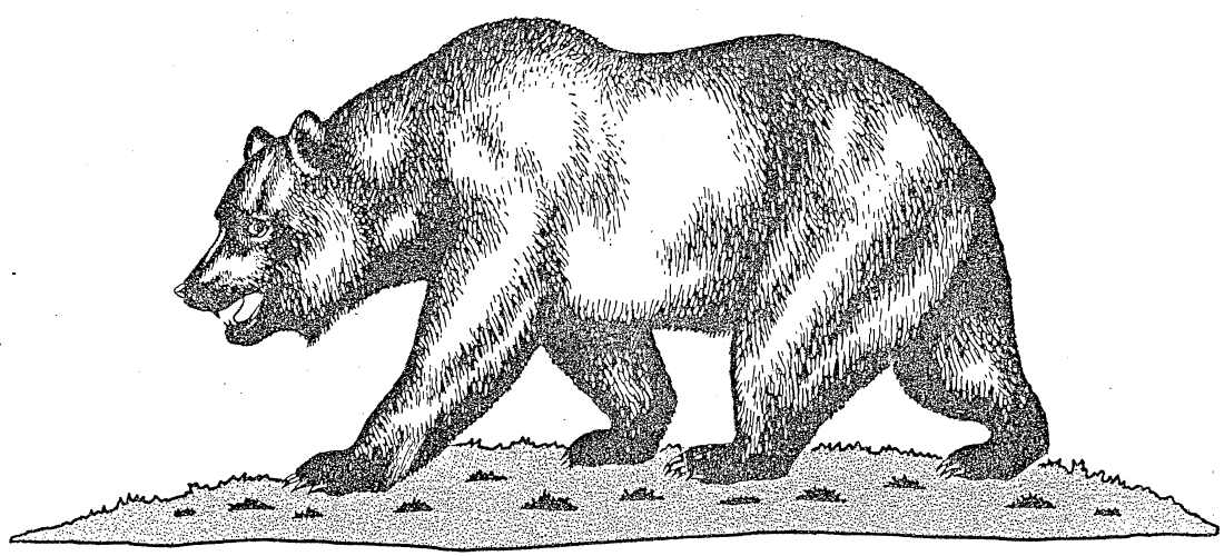 This is the official black-and-white drawing of the bear and plot found on the Flag of California. This was specified under 54-J-03. Original artwork by Don Greame Kelley